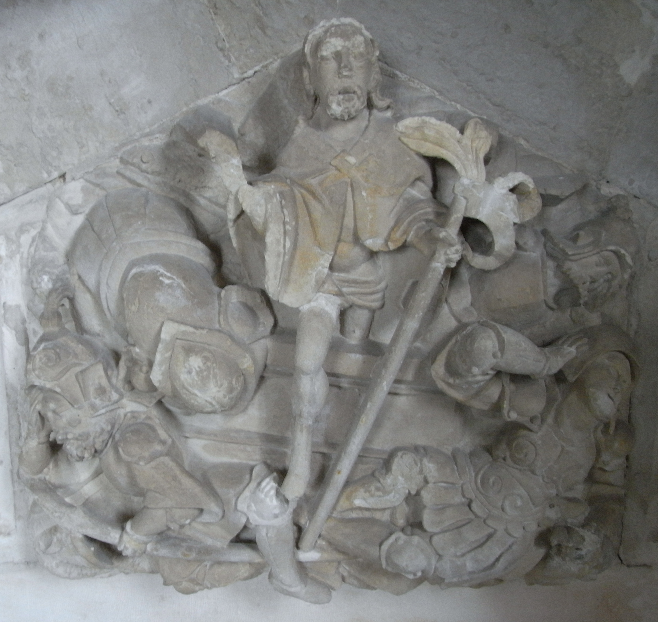 Easter Sepulchre, Holcombe Burnell Church, Devon. Detail of central relief showing Christ arising from the tomb with sleeping guards